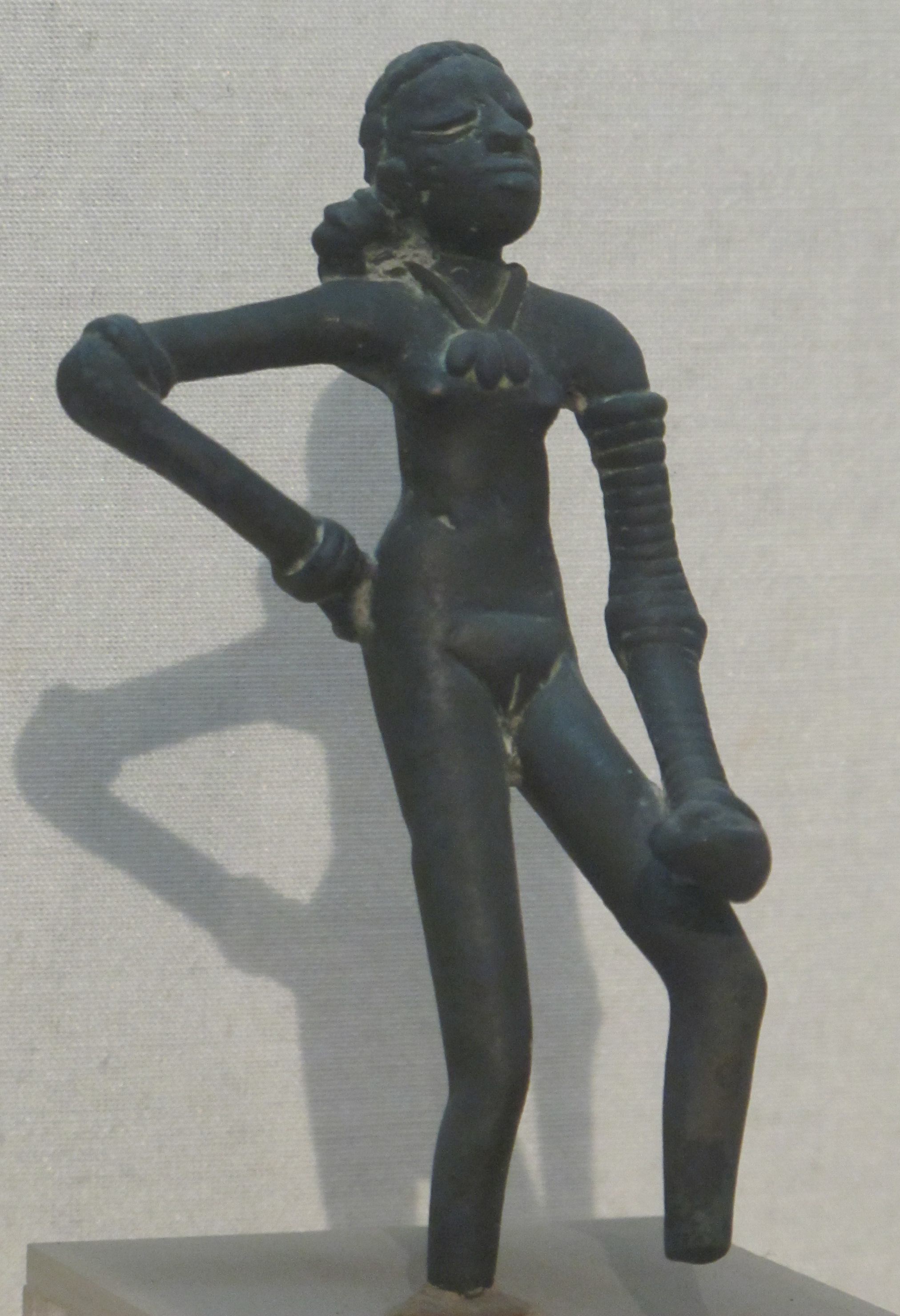 "Dancing girl" statuette. Copper. 14 cm high. Found in 1926 in a house in Mohenjo-daro.